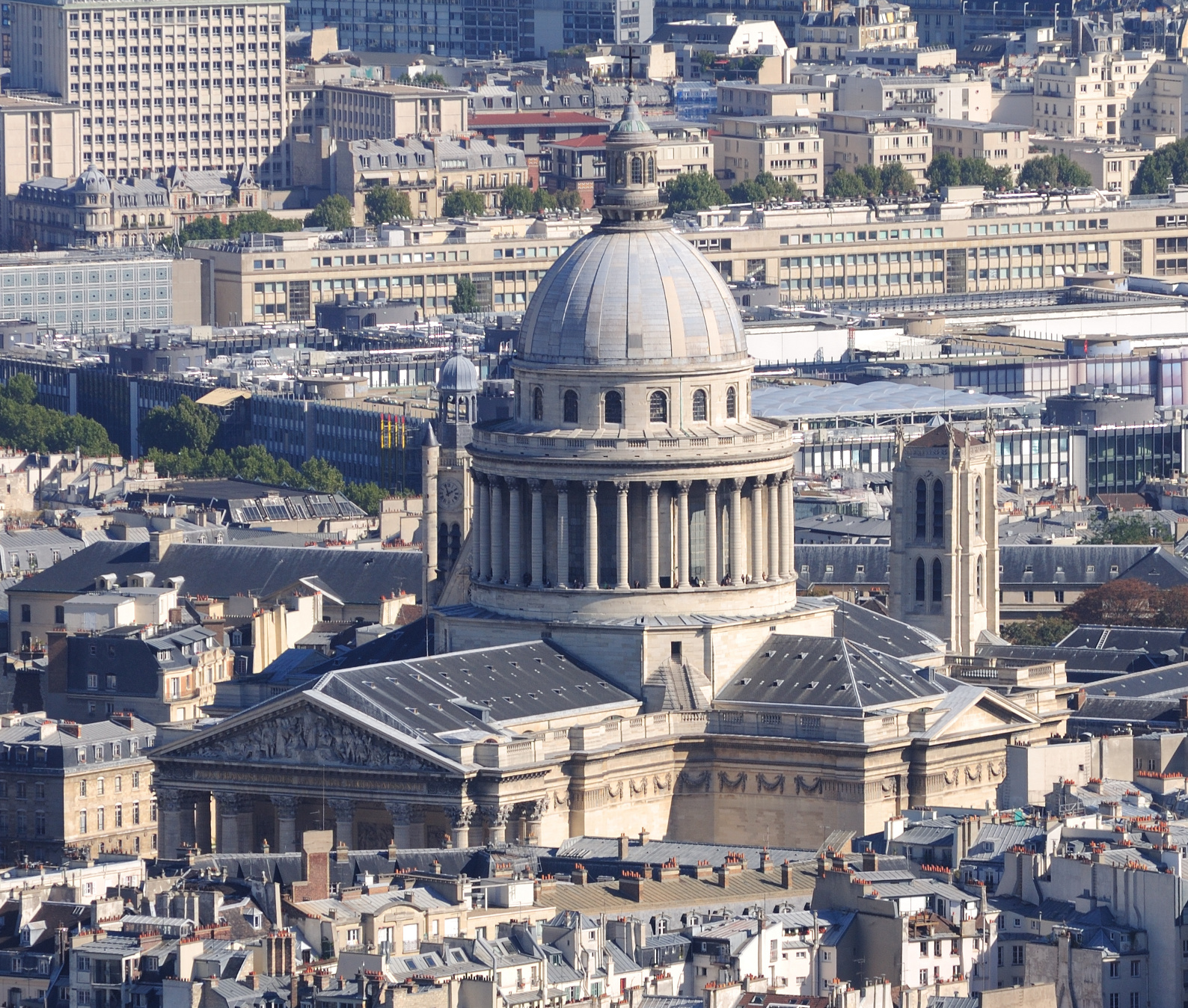 Paris: Panthéon